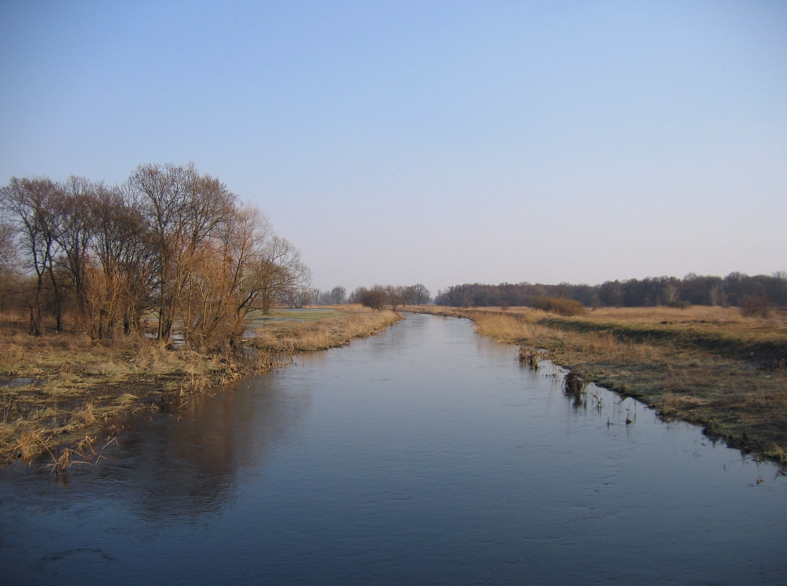 Widawa River seen from Sołtysowicki Bridge, Sołtysowice, Wrocław, Poland. Increased water level in spring 2006.